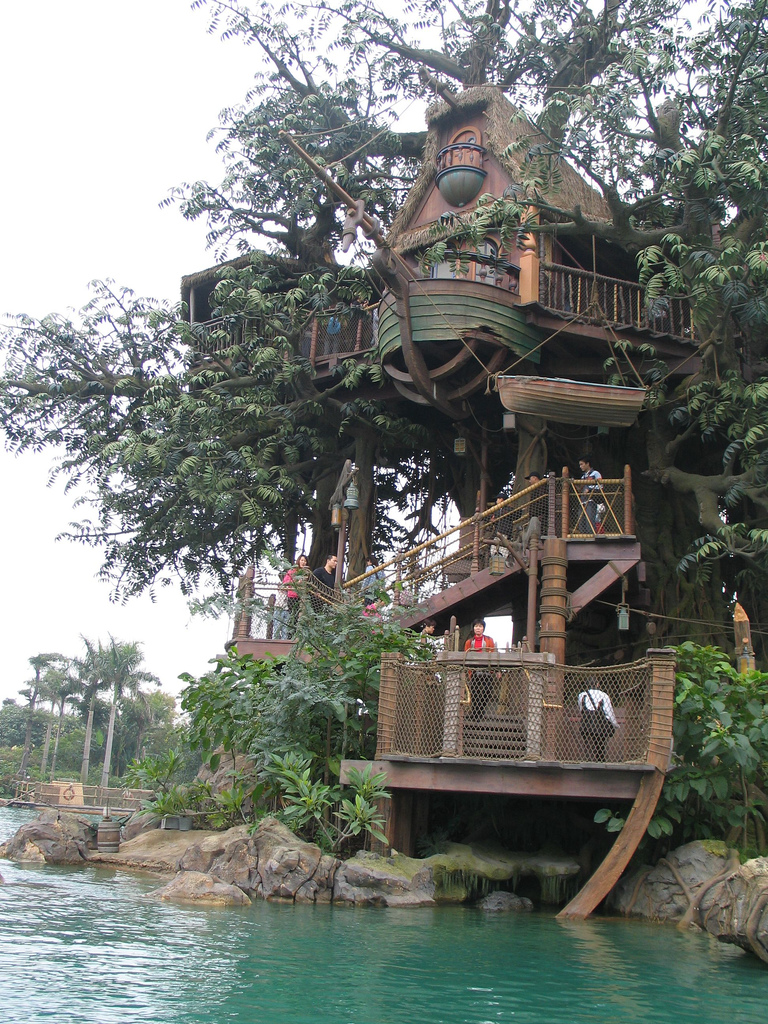 Hong Kong Disneyland, Tarzan tree house by Dave Q